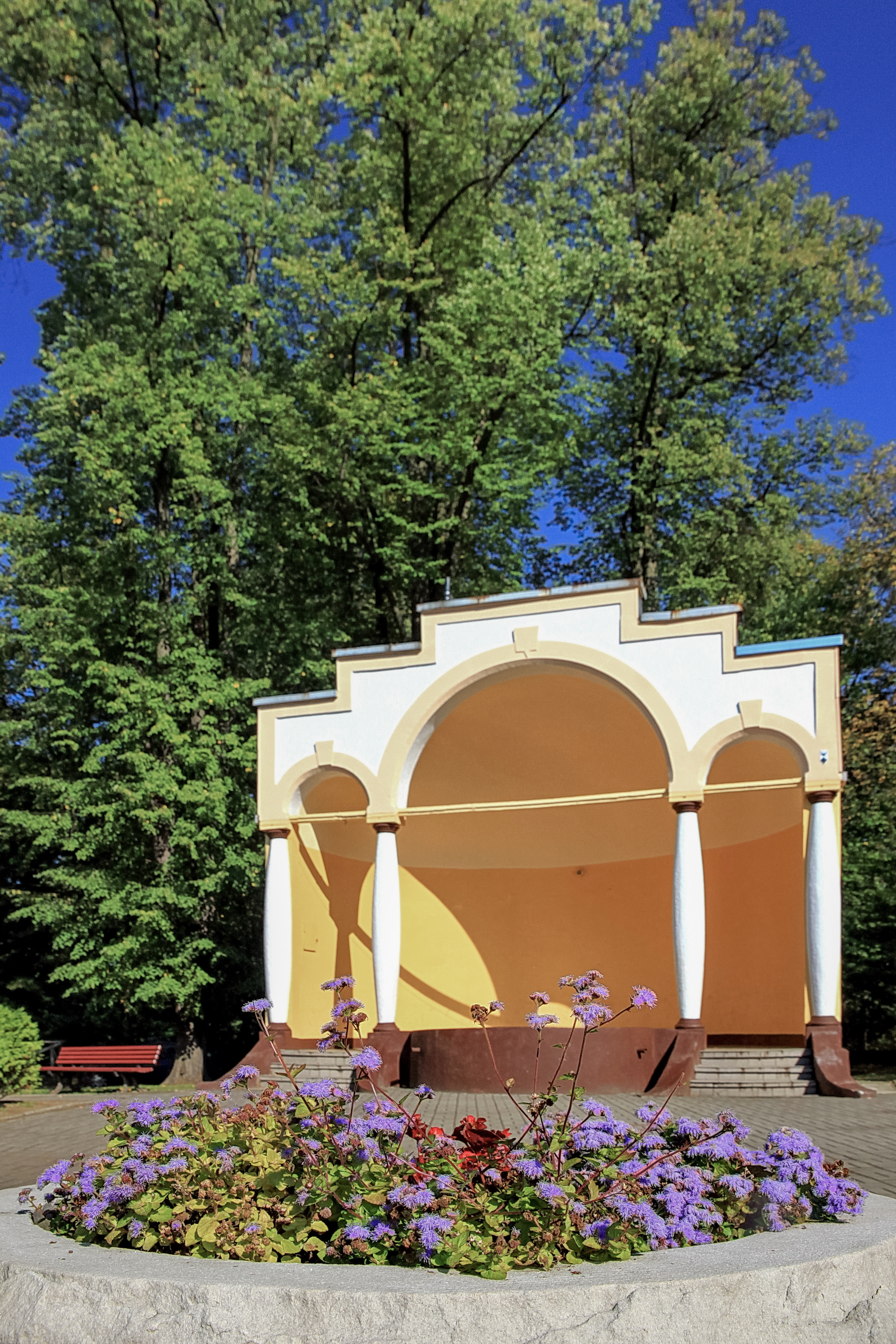 Concert shell. Zdrojowy Park. Jastrzębie-Zdrój, Silesian Voivodeship, Poland.